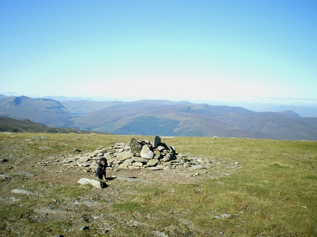 The summit cairn - Meall a' Choire Leith